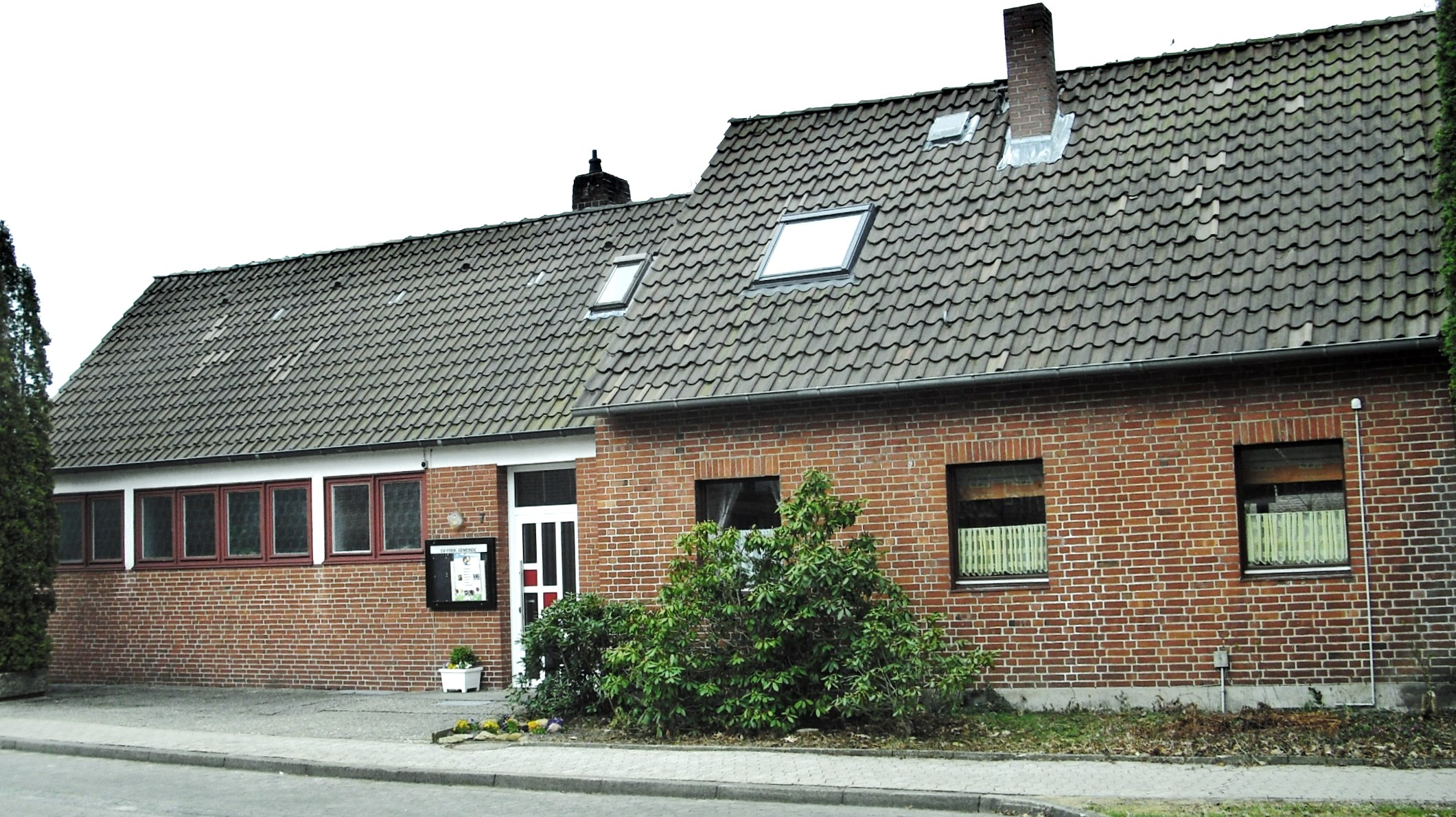 Baptist Church Unterluess, district Celle, Lower Saxony, Germany